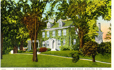 published 1910s Neff Novelty Co., Cumberland, Md.